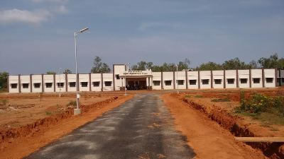 Tamiluniversity science faculty building தமிழ்ப்பல்கலைக்கழக மி வடிவ அறிவியல் புலக்கட்டடம்